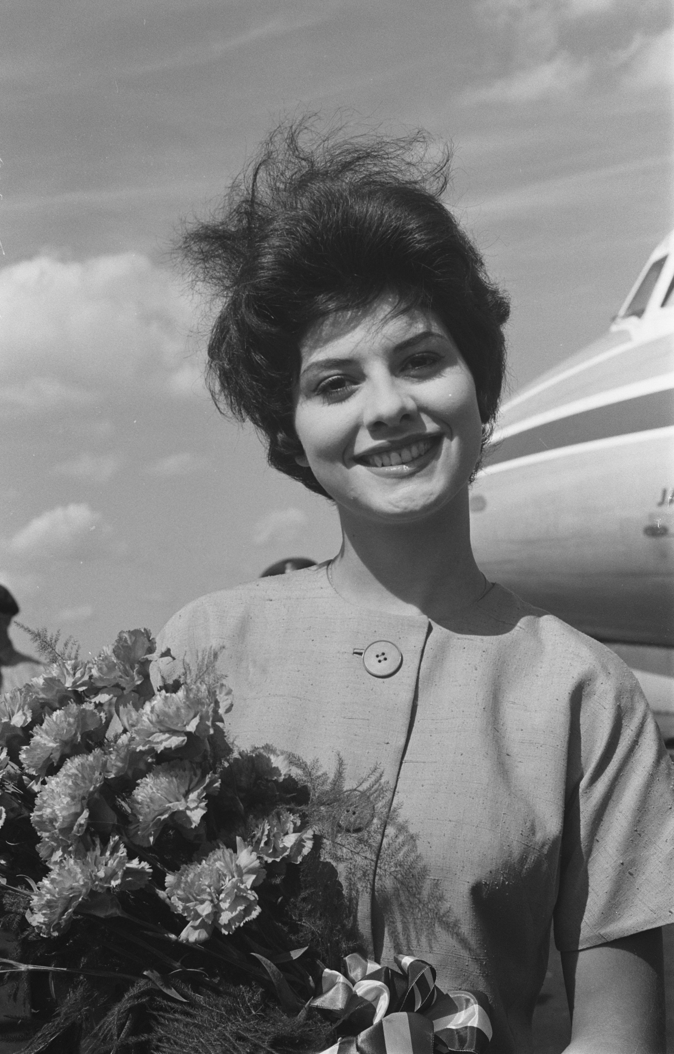 Dutch beauty pageant Stanny van Baer (Miss International 1961).